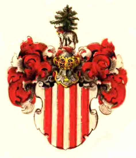 Coat of arms of the Lords and Counts of von Dallwitz family.